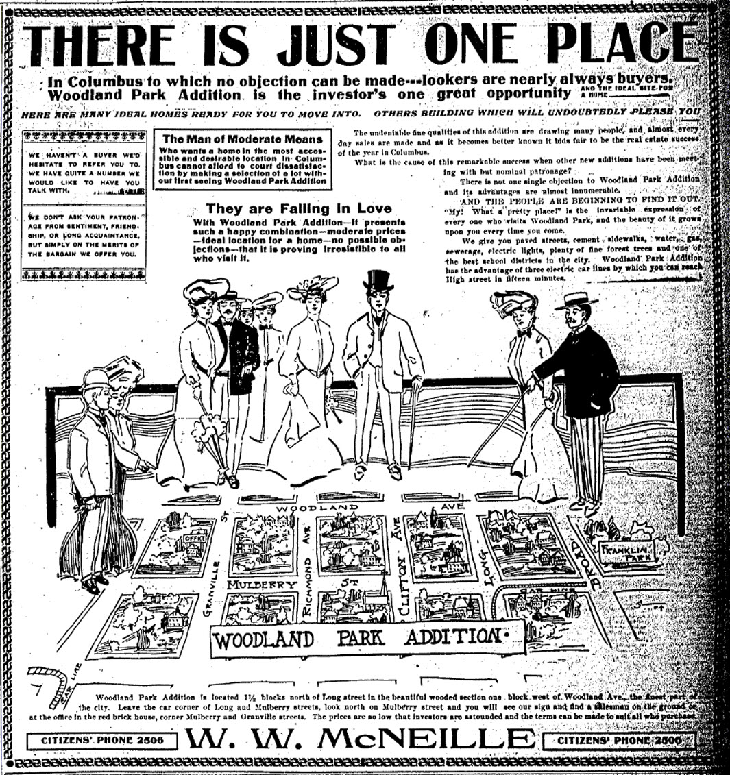 This is the original advertisement for Woodland Park, a neighborhood in Columbus, OH